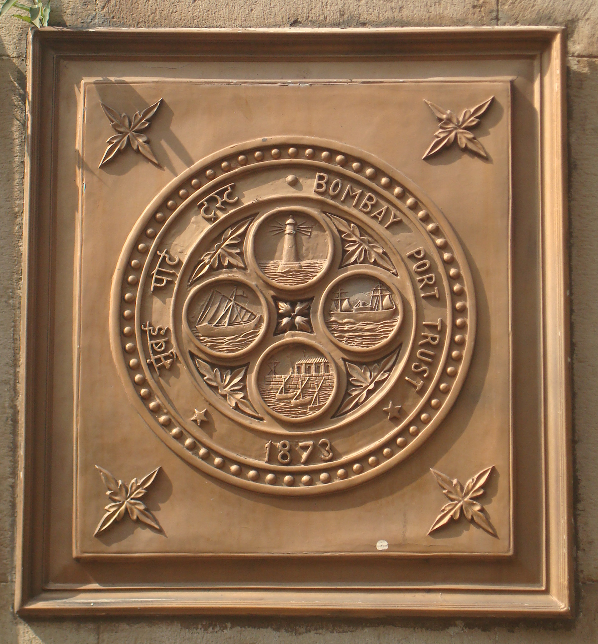 Mumbai Port Trust logo